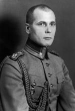 Recipient of the Mannerheim medal #66